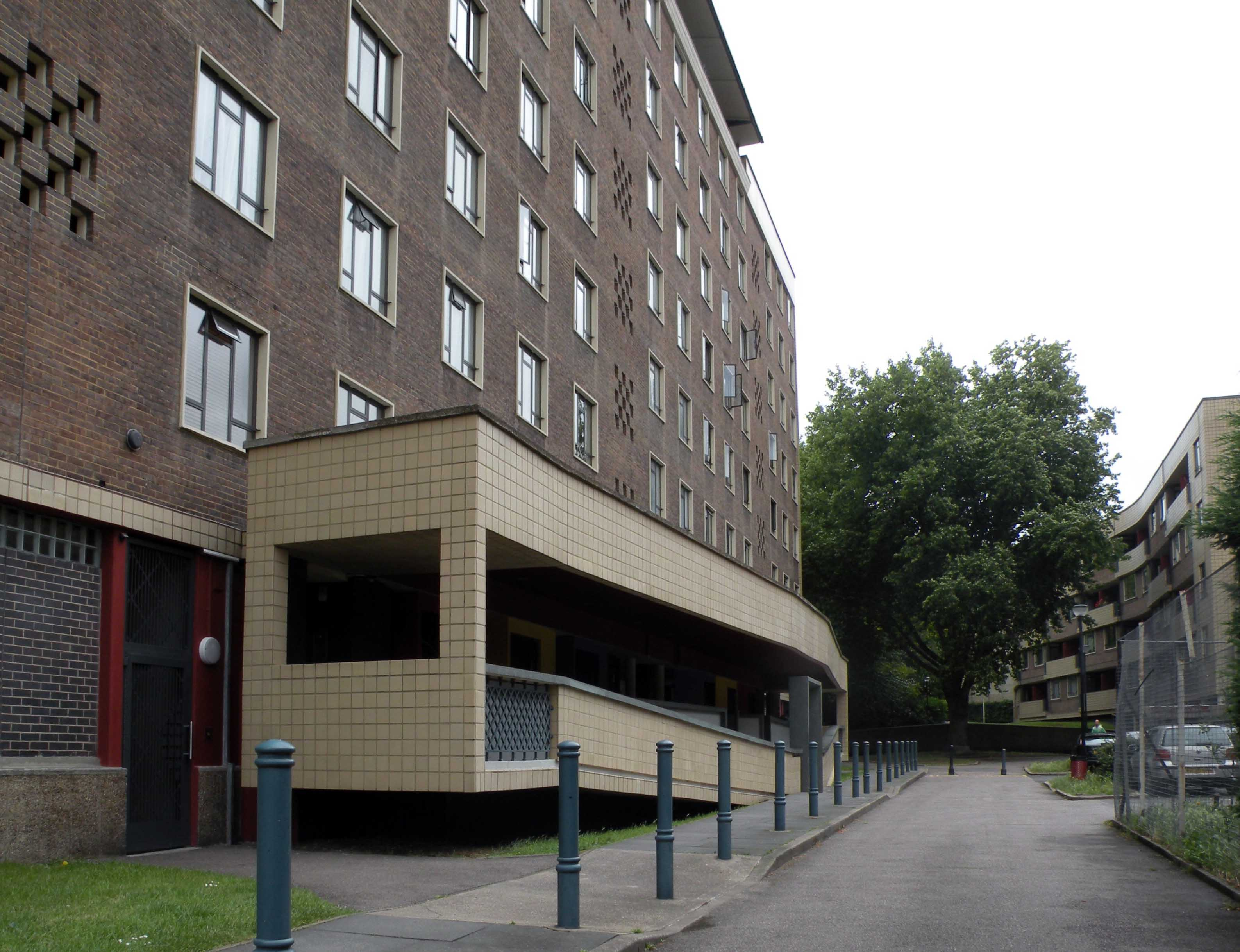 ramped entryway seems to hover above the ground